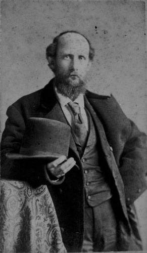 Reverend Henry Hodges Parker (1834–1927) was Pastor of Kawaiahaʻo Church from 1863 to 1917.